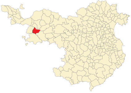 Campdevànol